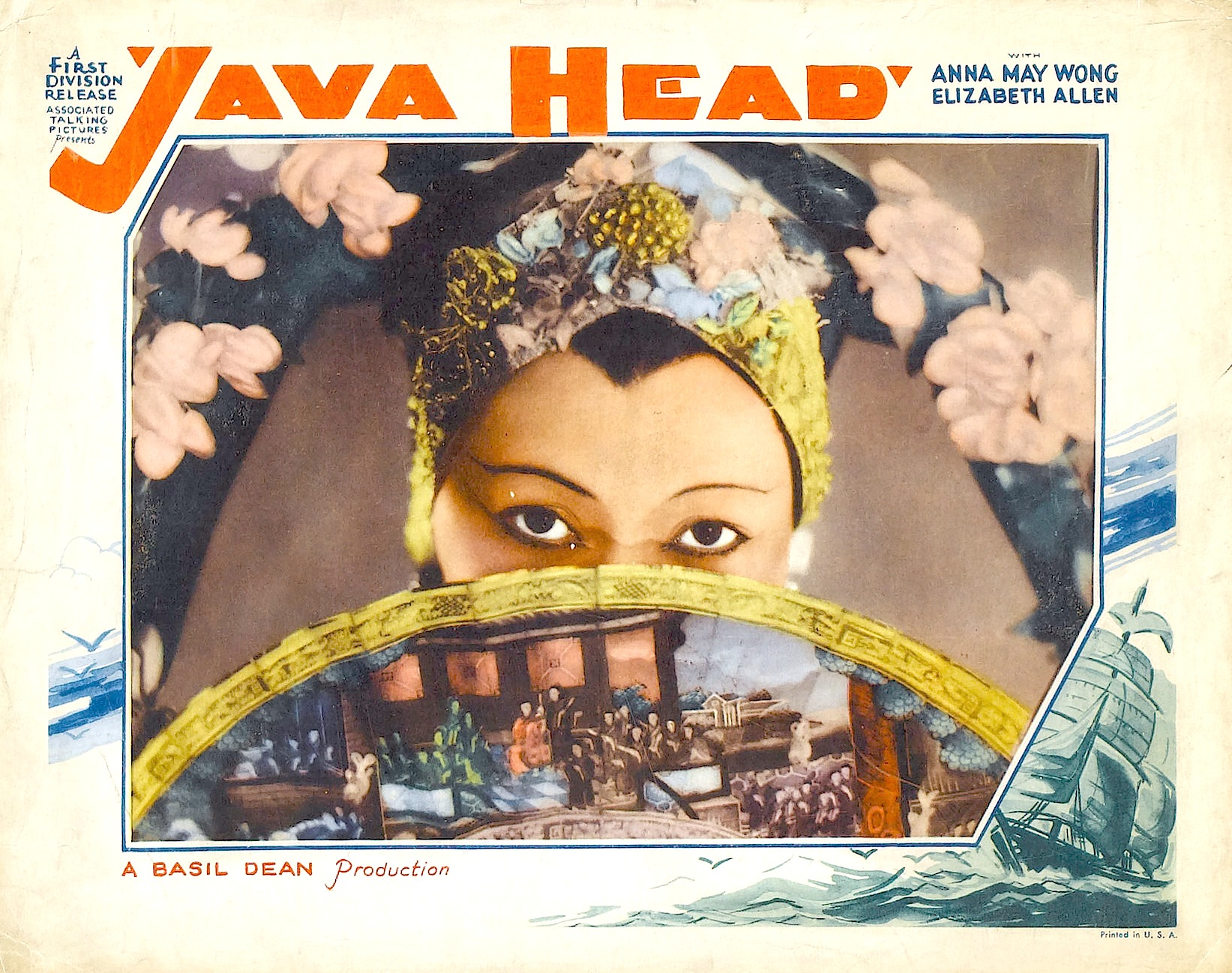 Java Head is a 1934 British historical drama film directed by Thorold Dickinson and J. Walter Ruben. It starred Anna May Wong, Elizabeth Allan, Ralph Richardson, Herbert Lomas and George Curzon. This poster had no copyright printed on it and was printed in the USA (see small print on lower right) in 1934, thus public domain.